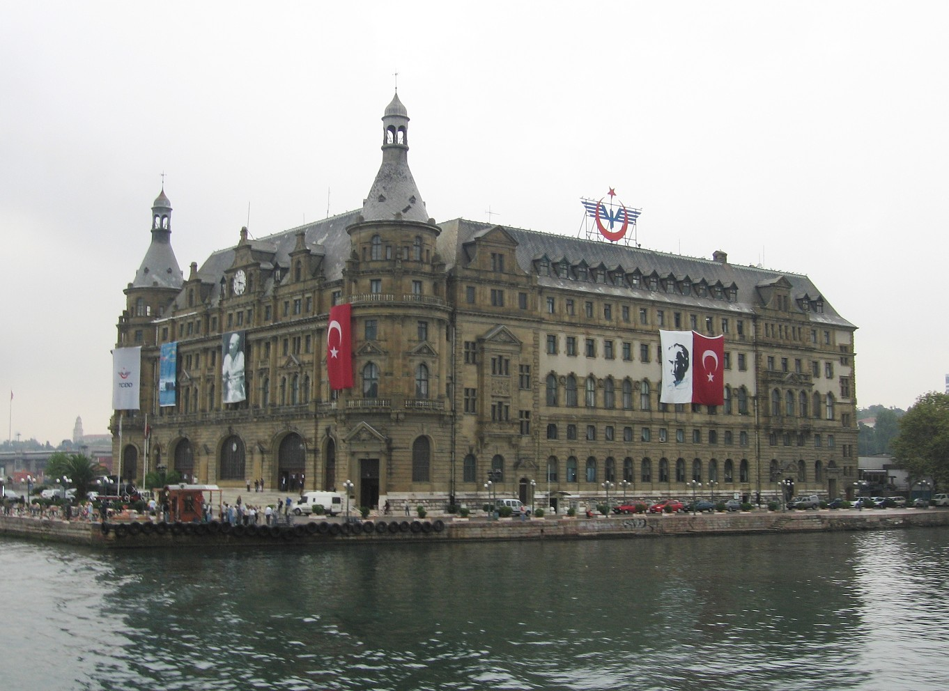 Haydarpaşa train station in Istanbul, Turkey